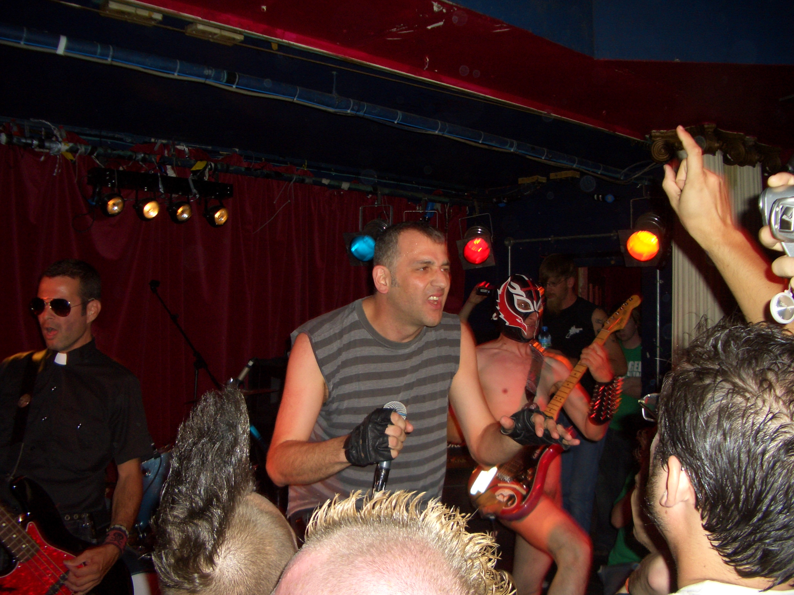 Dwarves performing in Monto Water Rats Theatre, London